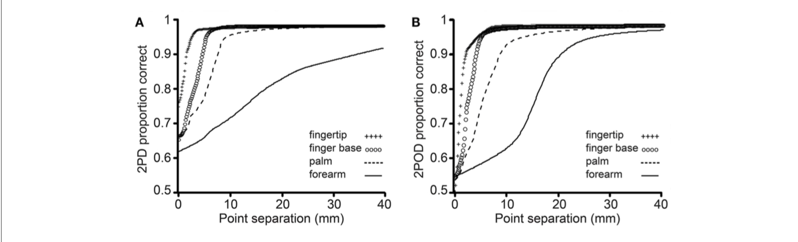 From Tong et al (2013) (A) Performance on a the traditional two-point discrimination (2PD) task. (B) Performance on the two-point orientation discrimination task (2POD). In both cases, the tests were done with a two-interval forced-choice testing procedure. Note that performance on 2PD is well above chance even at zero mm separation, indicating that 2PD is not a valid measure of tactile spatial acuity. By contrast, performance on 2POD falls to chance level (50% correct) as the point separation approaches zero mm, as expected for a valid measure of spatial acuity.